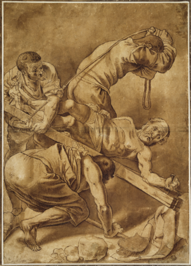 The Crucifixion of Saint Peter, drawing by Gerrit van Honthorst (1616), a copy of the famous painting of Caravaggio in the Cerasi Chapel in Rome. Located in the Nasjonalgalleriet, Oslo.